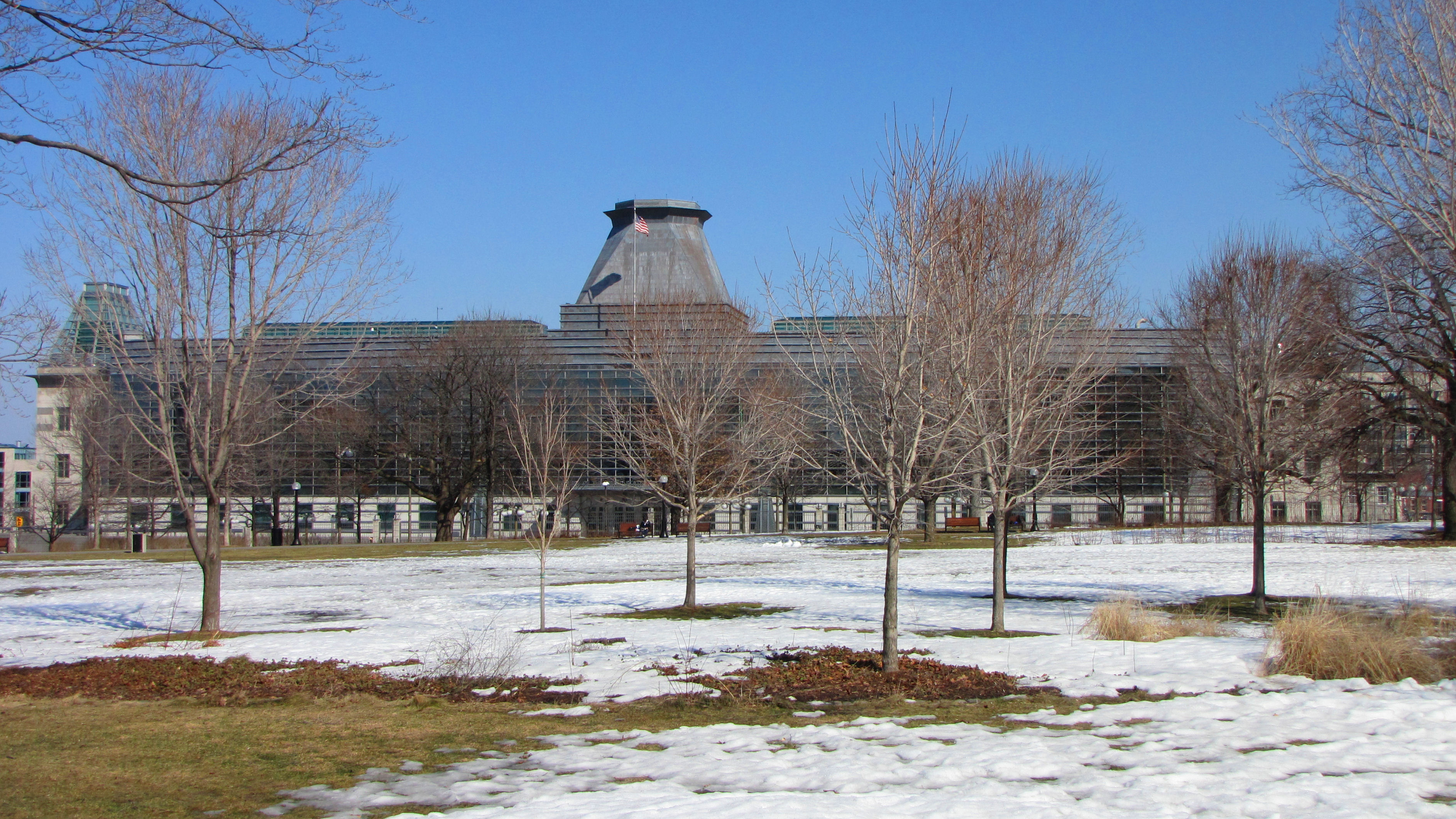 Embassy of the United States of America, Ottawa, Canada